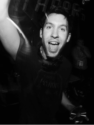 Calvin Harris in 2010